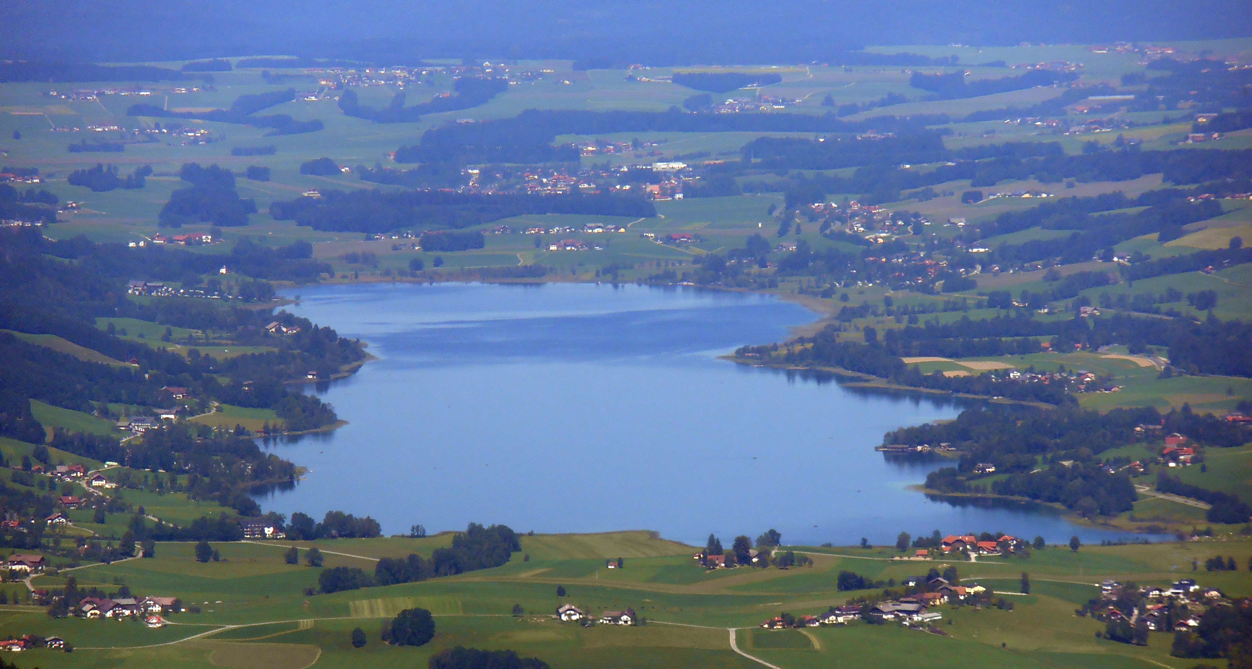 Irrsee from Schober